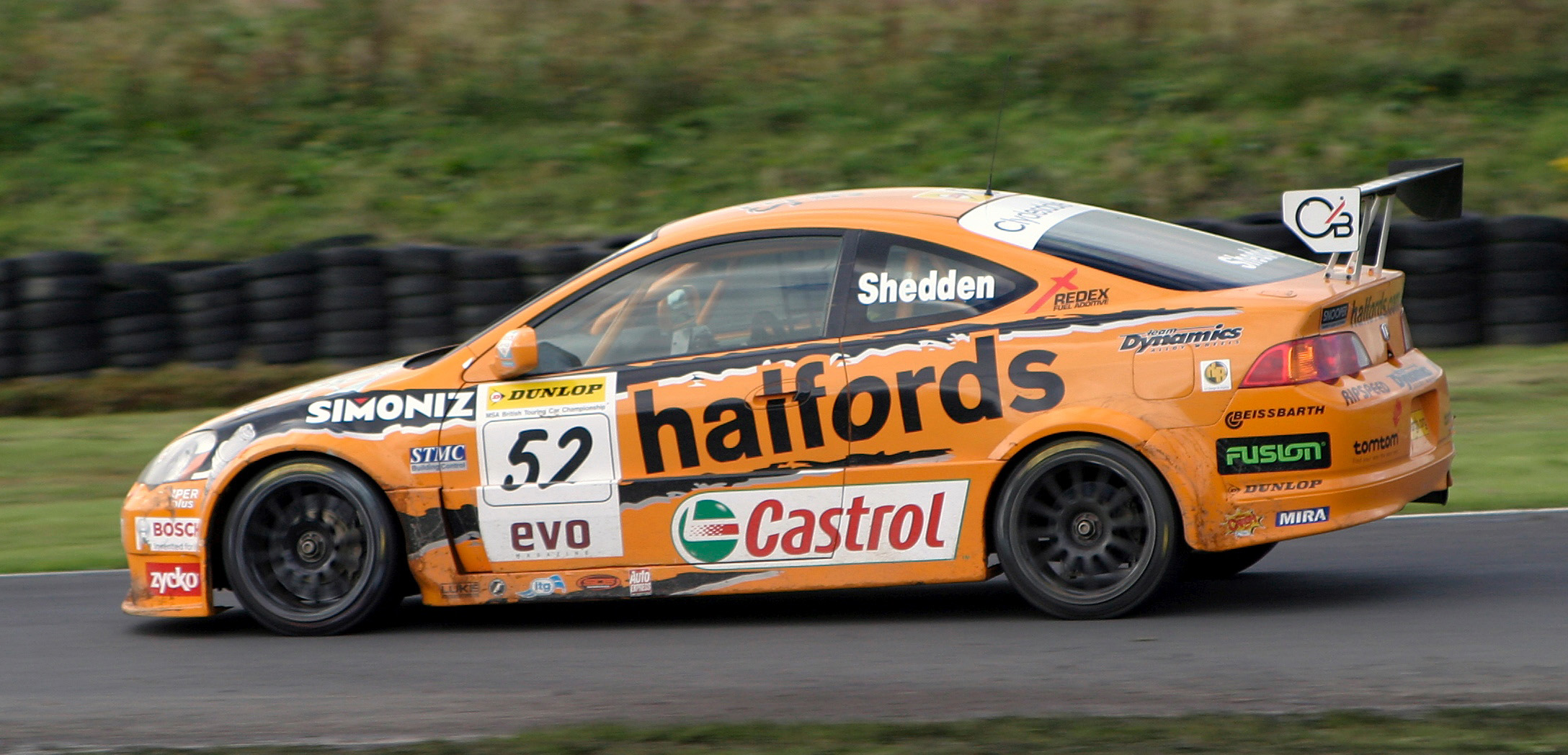 Gordon Shedden driving Honda Integra at Knockhill (2006 BTCC season).